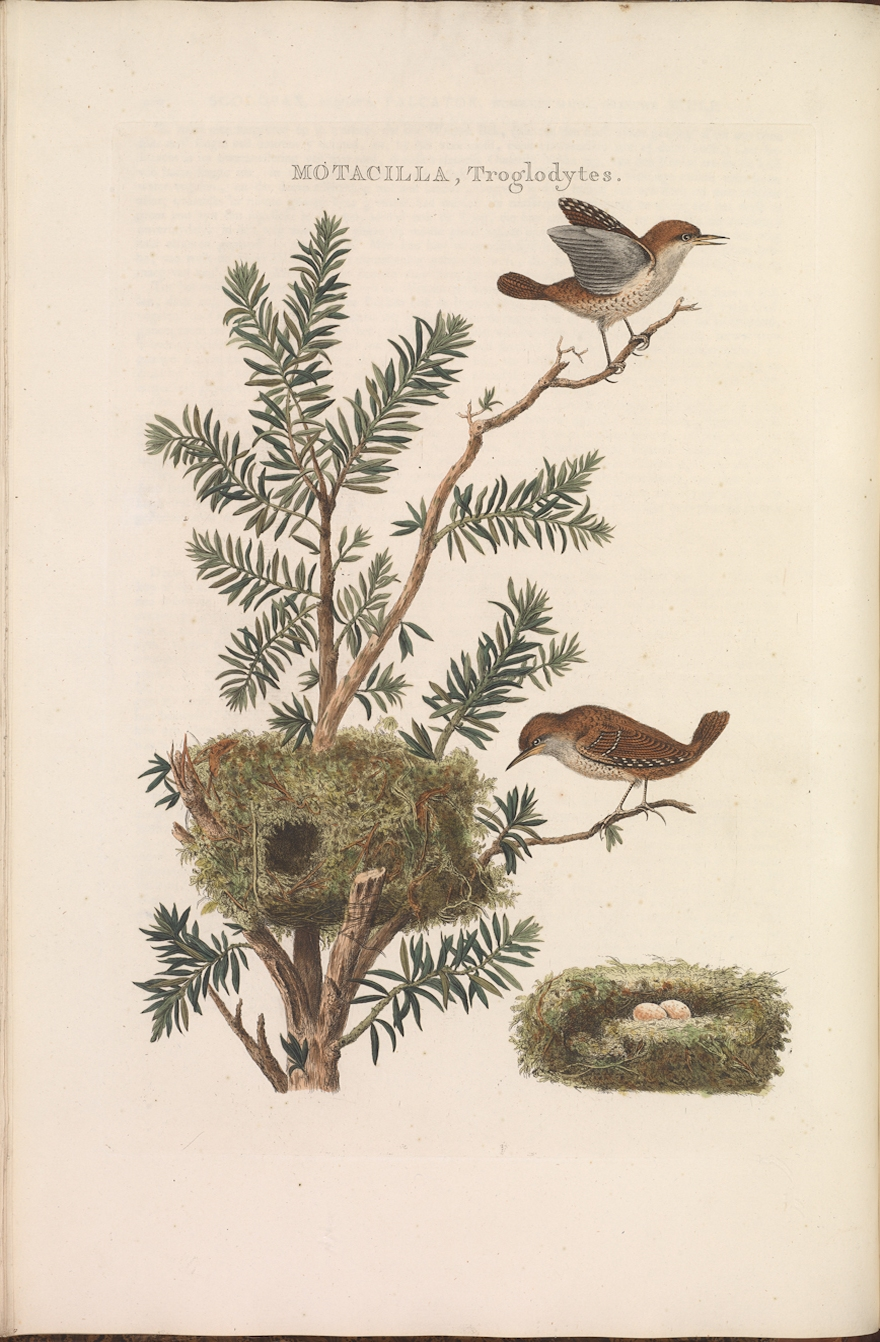 Plate 59 from the Nederlandsche vogelen by Nozeman and Sepp.